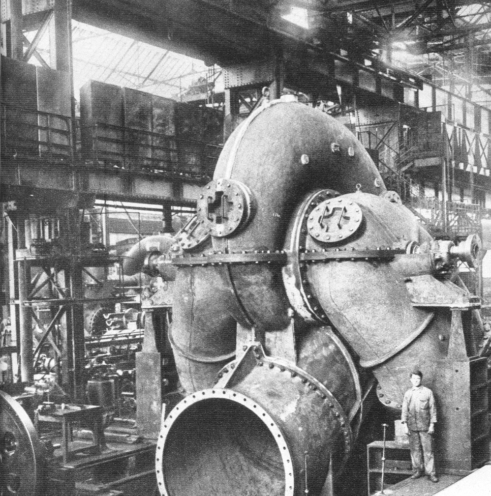 Turbine Installation at the Ganz Works, Budapest